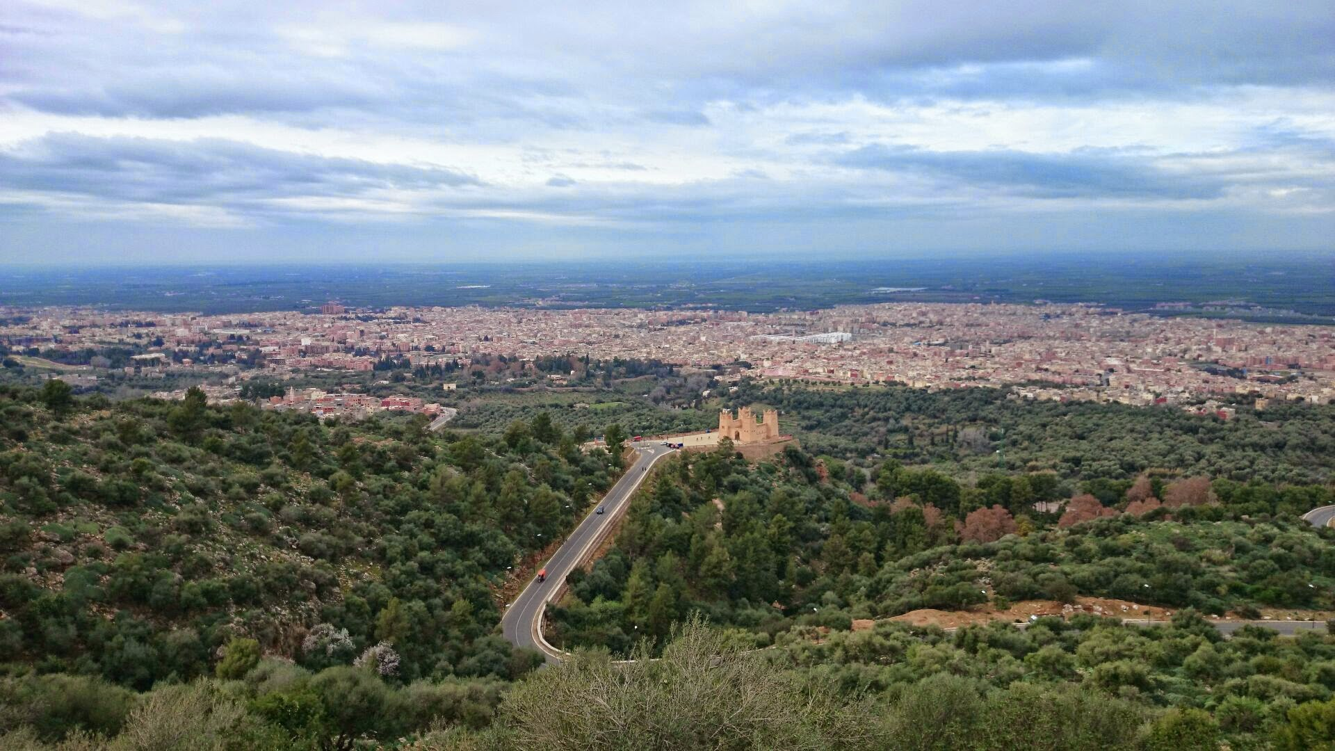 Here is a picture where you can see the old castle of Beni Mellal city. A panoramic view that shows you this small and lovely city.